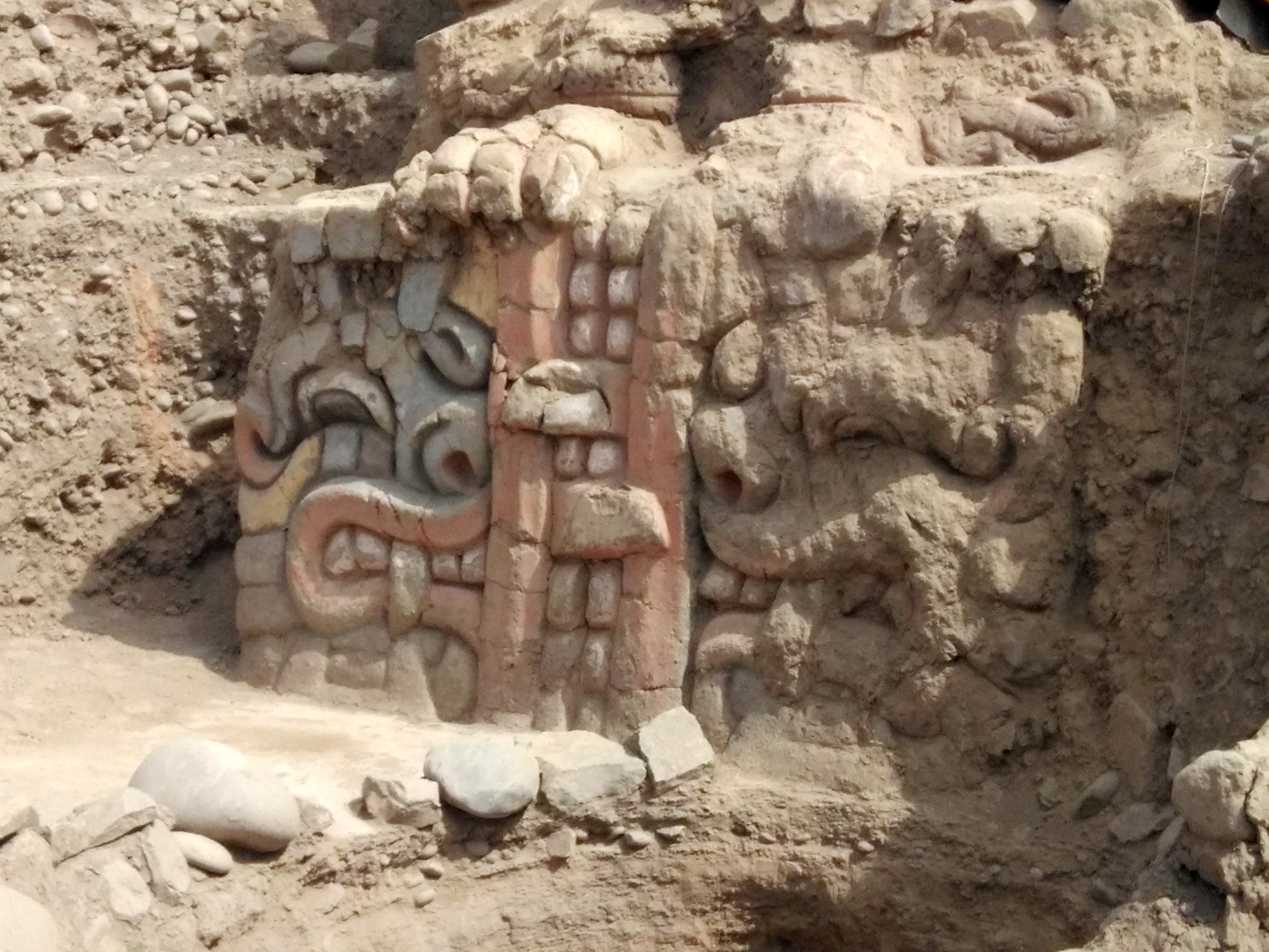 Access is marked by a deteriorated sculpture with claws above the Pilaster.